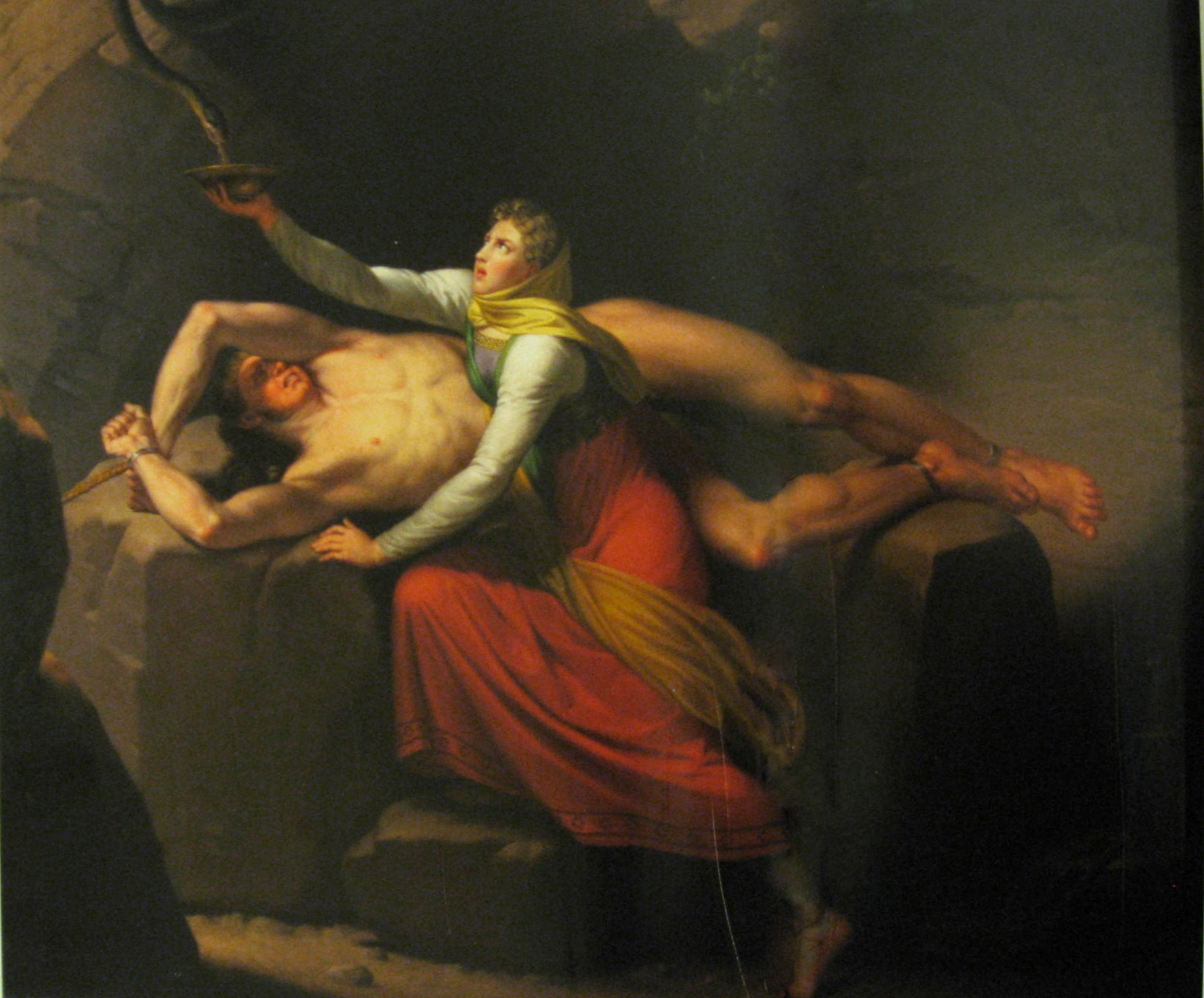 A photograph of a print of a photograph of a painting (oil on canvas, 134x162) showing Loki and Sigyn from Norse mythology. The reproduction is on two pages in the book and you can see the fold.